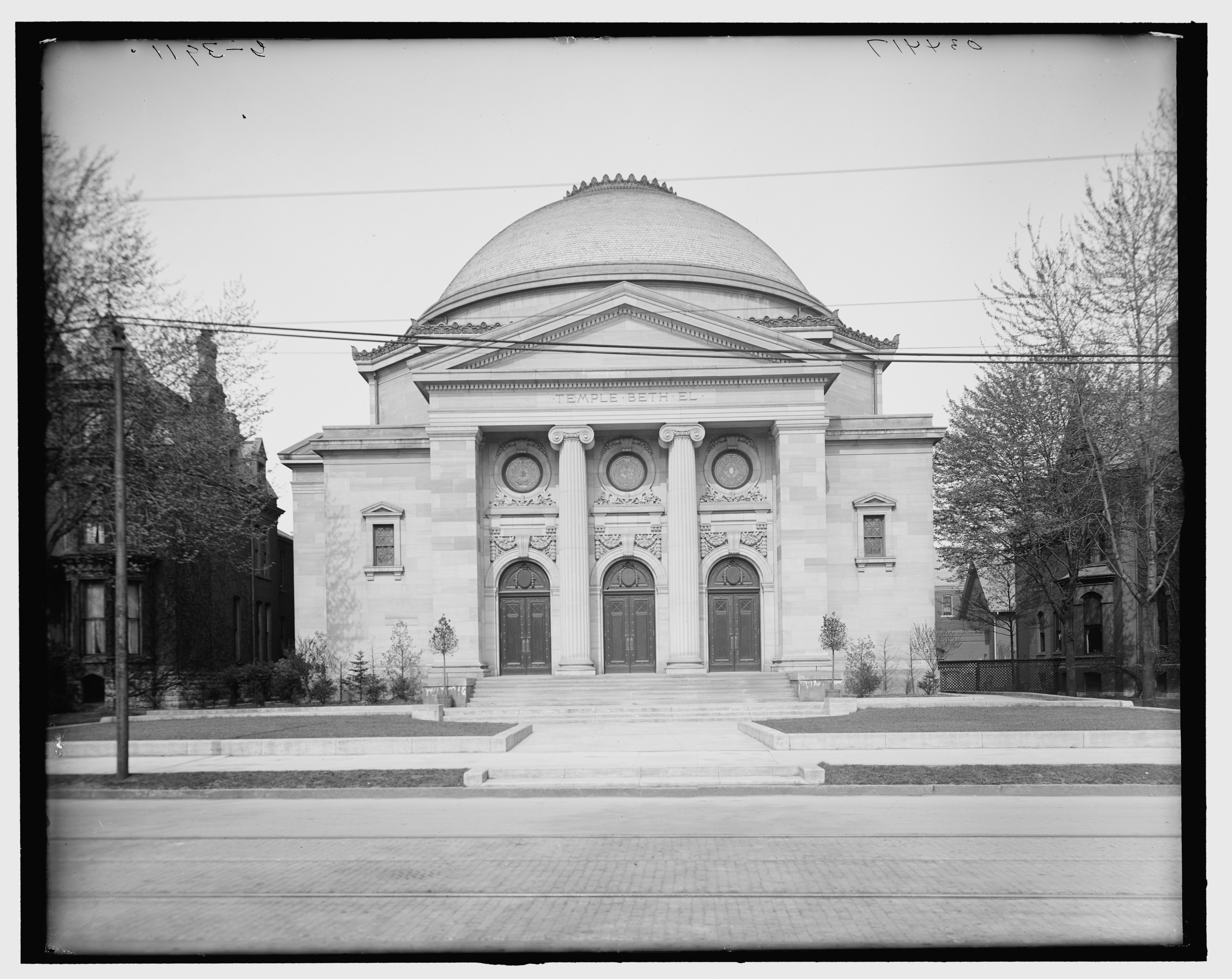 Temple Beth-El (1902) — Beth-El's first temple, in central Detroit, southeastern Michigan. Designed by congregant Albert Kahn in the Neoclassical style, now on the National Register of Historic Places A contributing property in the Brush Park Historic District. Present day Wayne State University Bonstelle Theater.